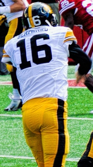 UW Badgers vs Iowa Hawkeyes, OLB Joe Schobert, UW # 58, trying to block a pass from QB Beathard, IOWA # 16